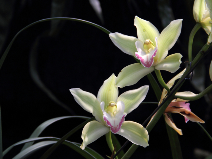 I am from China, but some of my families lives in Nepal or North India. My height is about 25~80 cm and my flower's diameter is about 6 cm. For people make us marrage with other orchids, so some of my families get the characteristic of others. We may have some different features but we are sure the same species. Through this way, we may have much more beautiful flowers, and you may have a chance to enjoy them during Mar to May. May you be happy for meeting me.